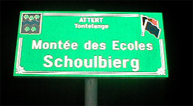 Bilingual roadsign with both French and Luxembourgish in Tontelange, Attert, Belgium.